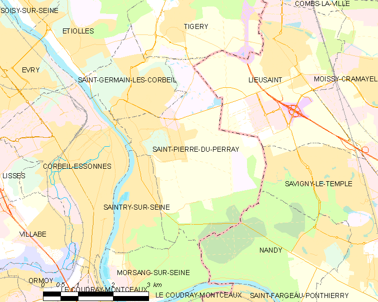 Map of French municipality Saint-Pierre-du-Perray